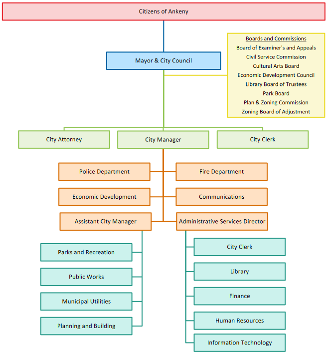 A graphic present in the City of Ankeny, Iowa's 2020 Adopted Annual Budget on page 12 which explains the structure of the city government.